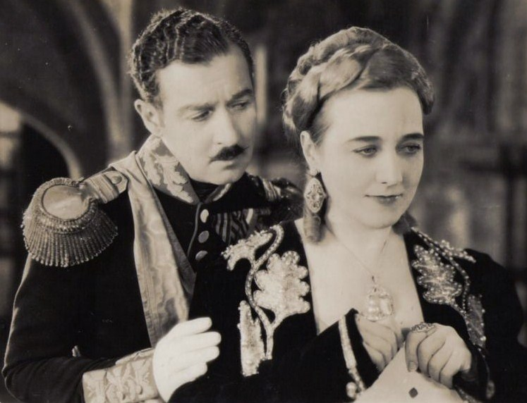 Albert Conti & Louise Dresser in The Eagle - publicity still (cropped : see source)